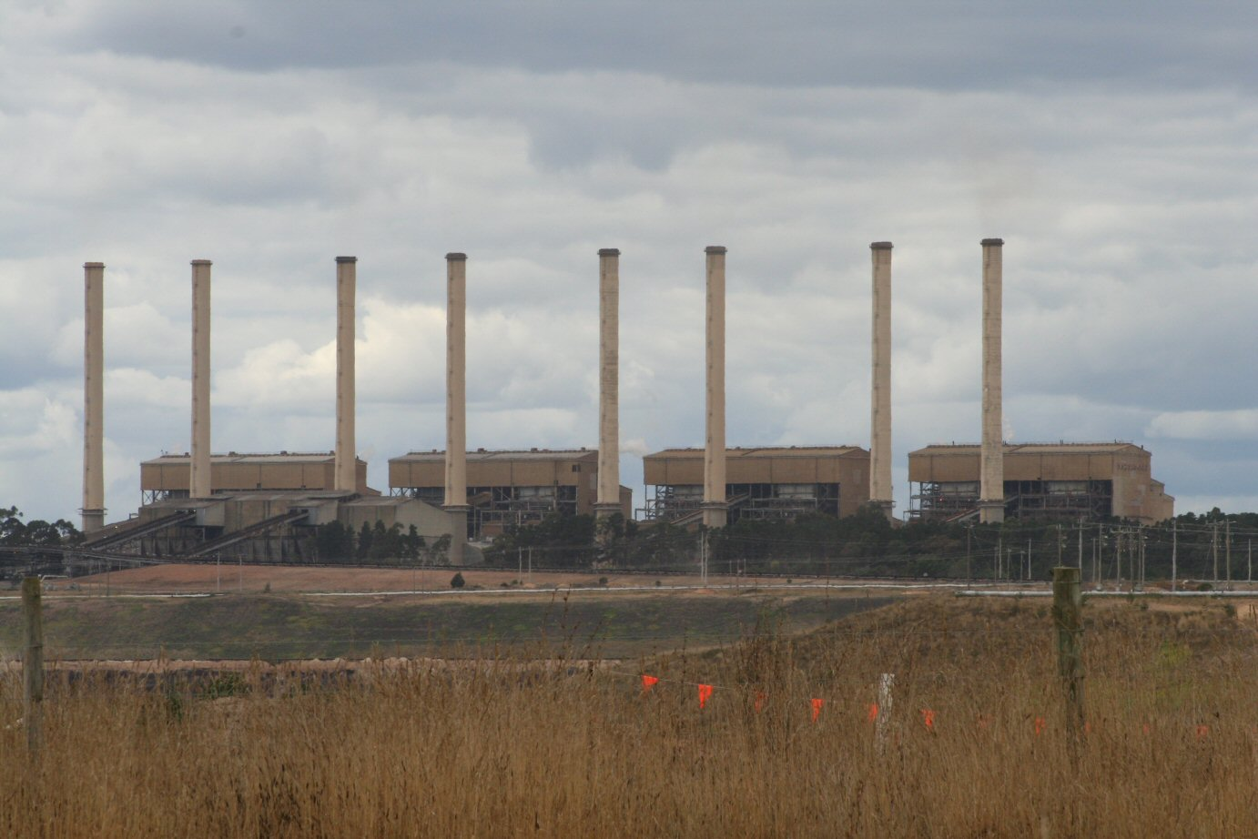 Photo of the Hazelwood Power Station in the Latrobe Valley, Victoria Australia.